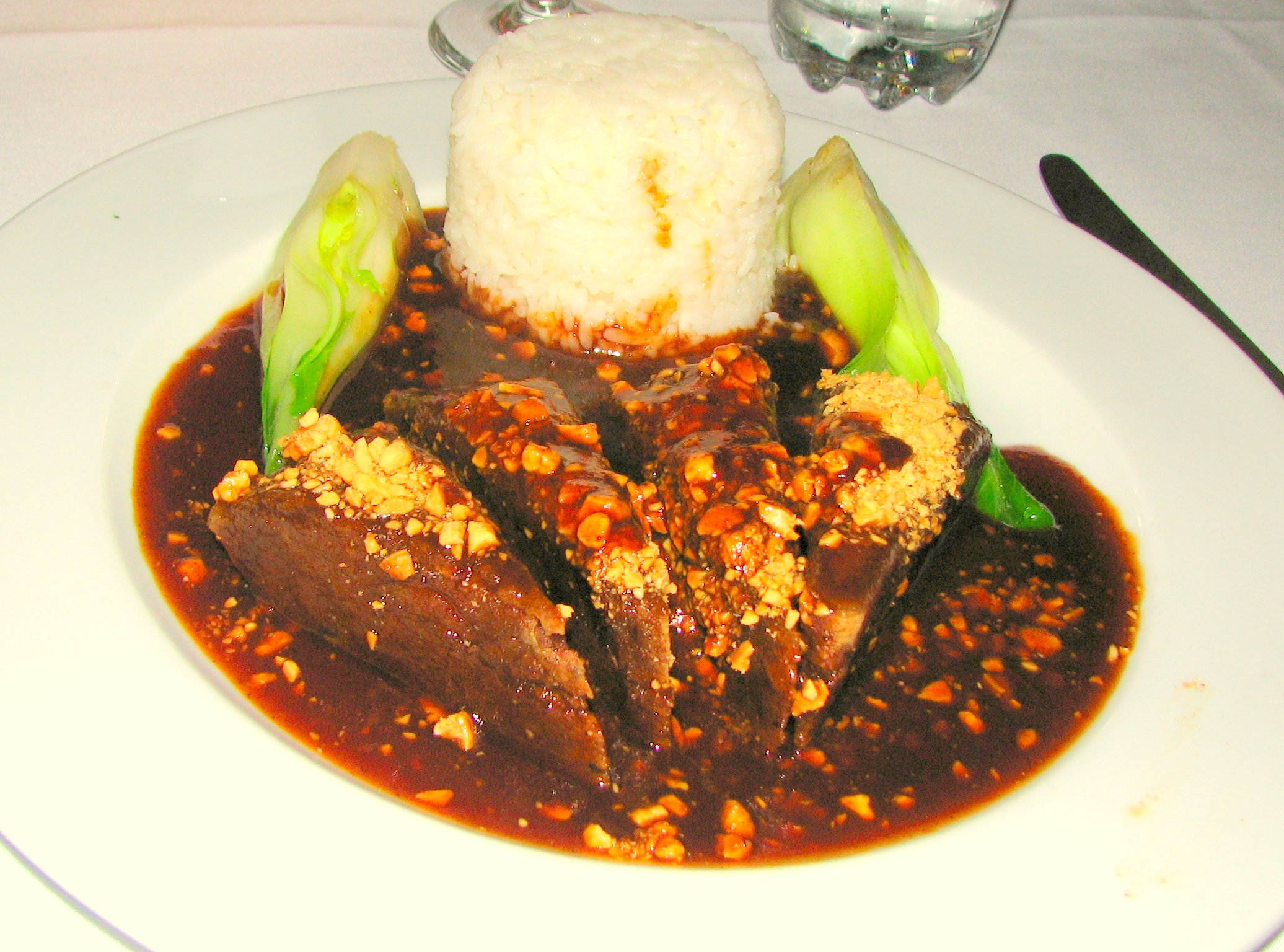 A photograph of Almond, or Mandarin, Pressed Duck, taken at Trader Vic's Restaurant in Emeryville, California